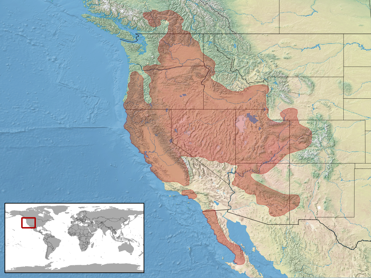 Geographic distribution of Crotalus oreganus — Pacific rattlesnake. western rattlesnake. Native to: Canada; Mexico; the United States. Classification according to RDB, Crotalus (oreganus) caliginis is included as subspecies.